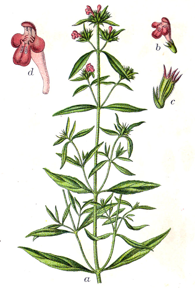 Galeopsis angustifolia Hoffm. Original Caption Schmalblättrige Kornwut, Galeopsis angustifolia